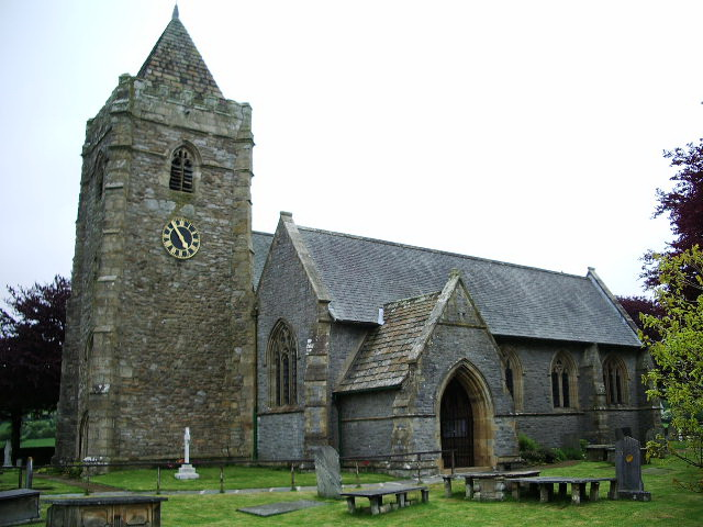 St Oswalds Church, Thornton in Lonsdale